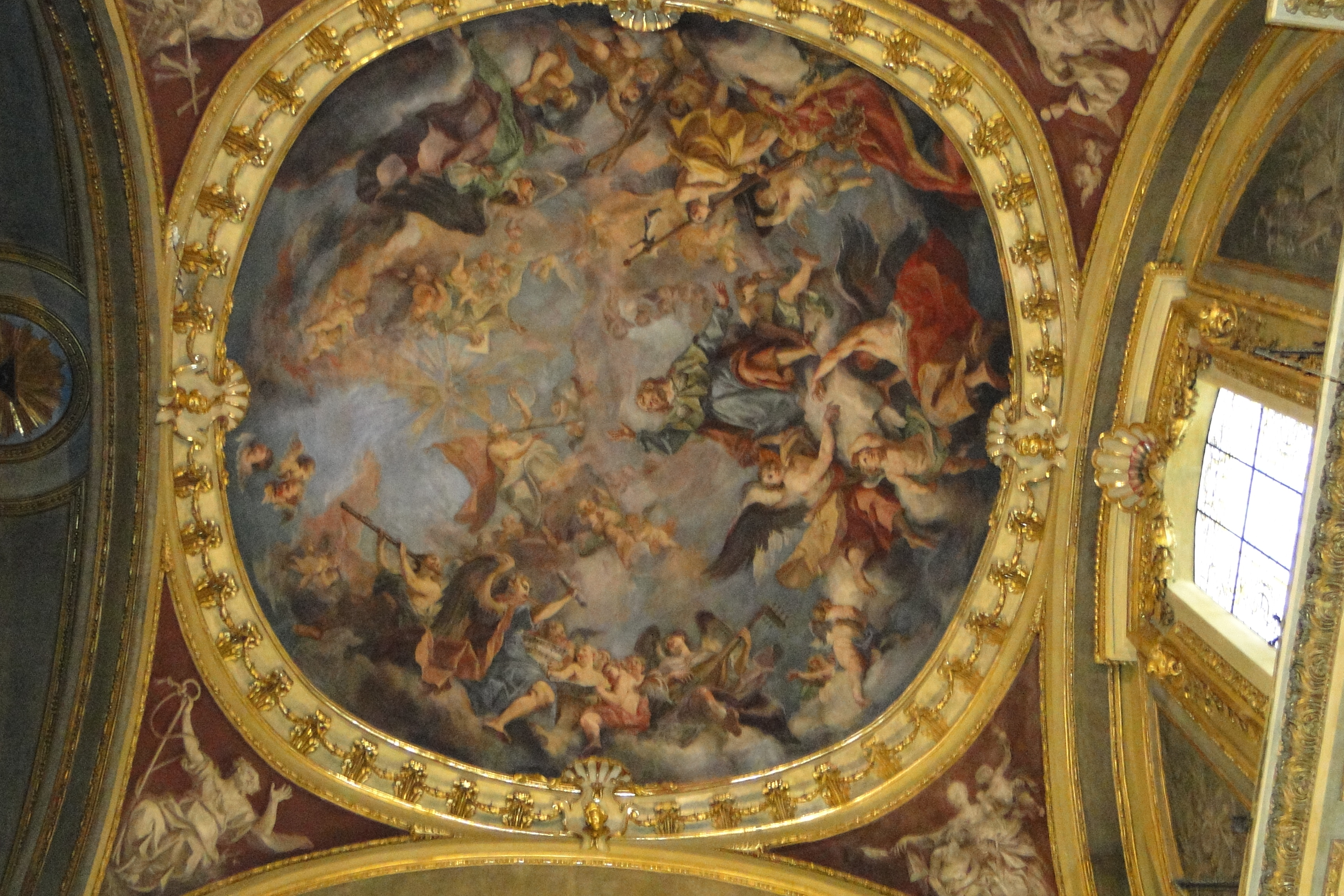 Apotheosis of san Rocco - Vault in the church of San Rocco (Turin, Italy)